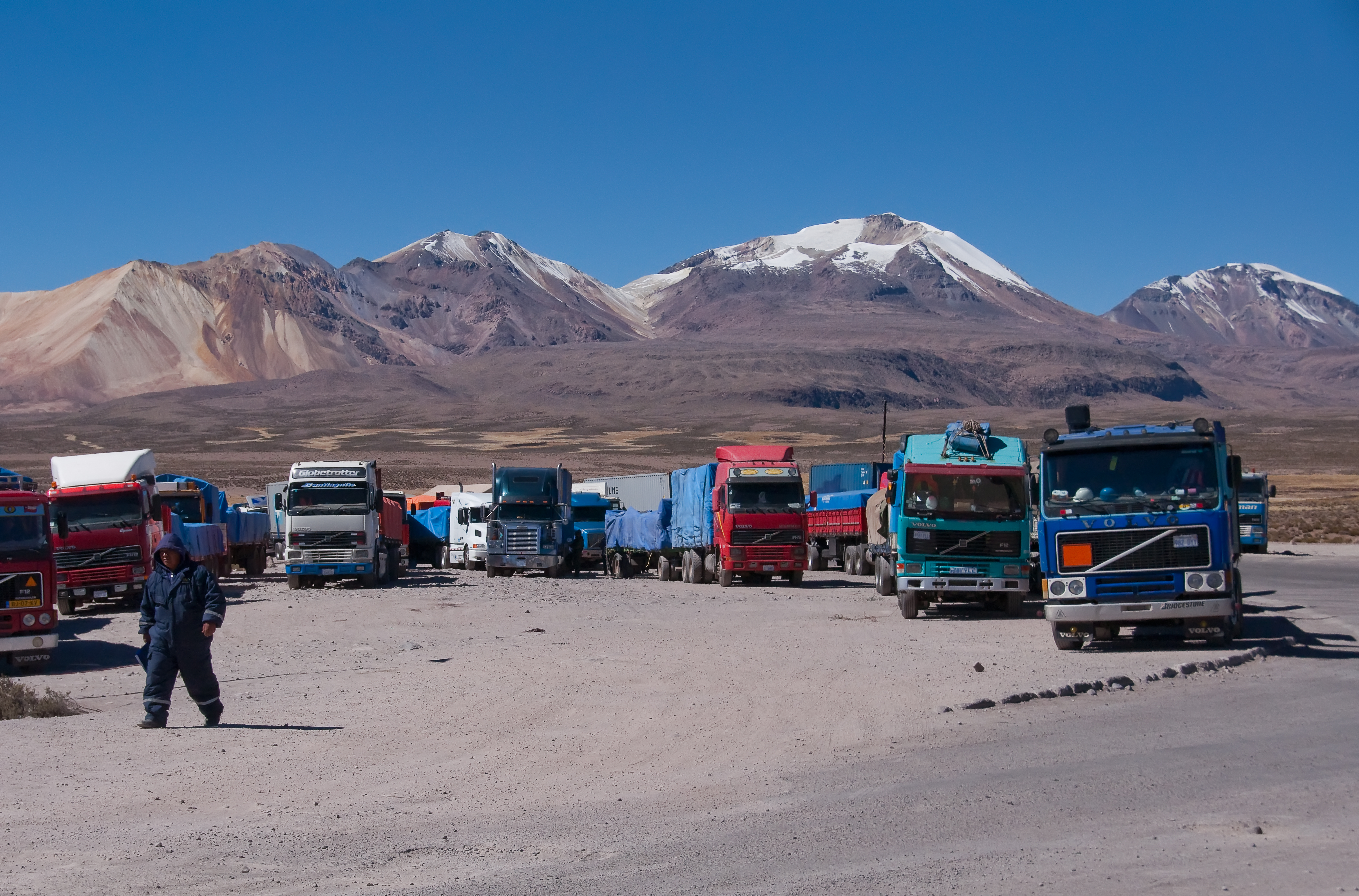 Variety of Volvo trucks at border crossing between Chile and Bolivia